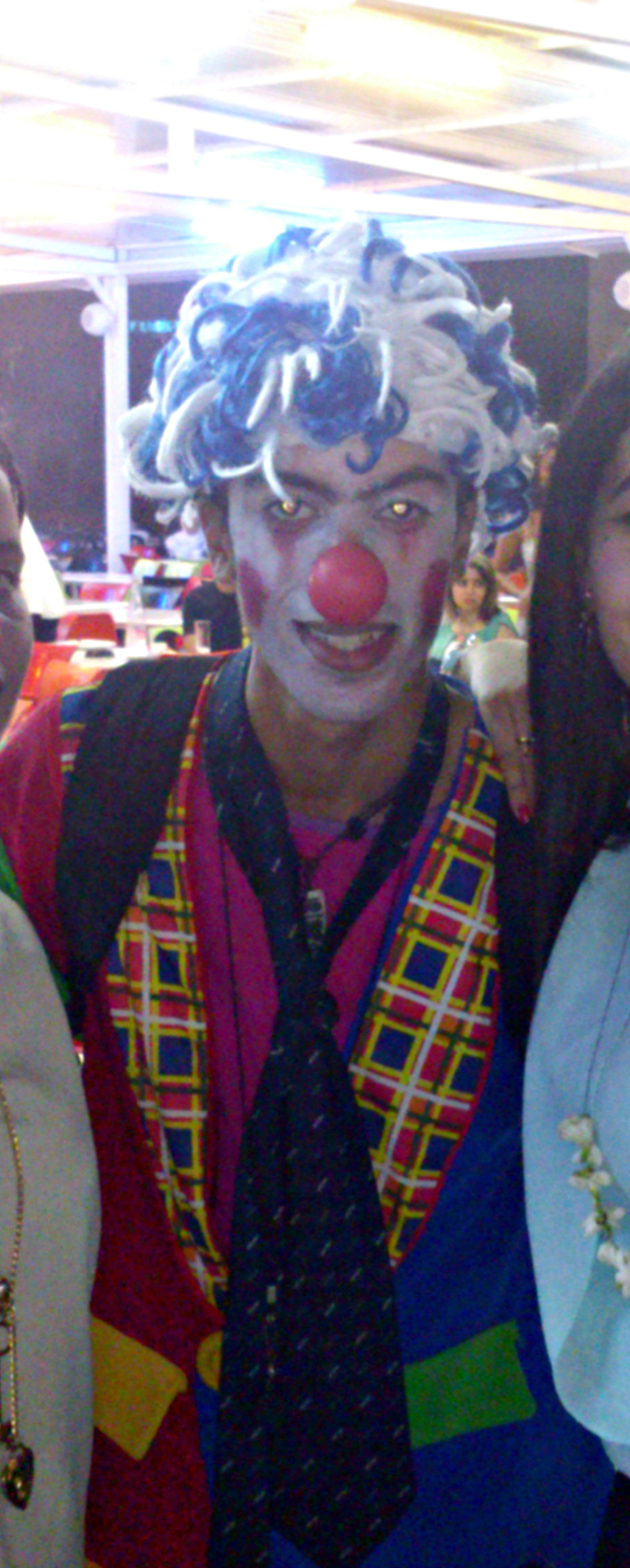 Clown from Tunisia